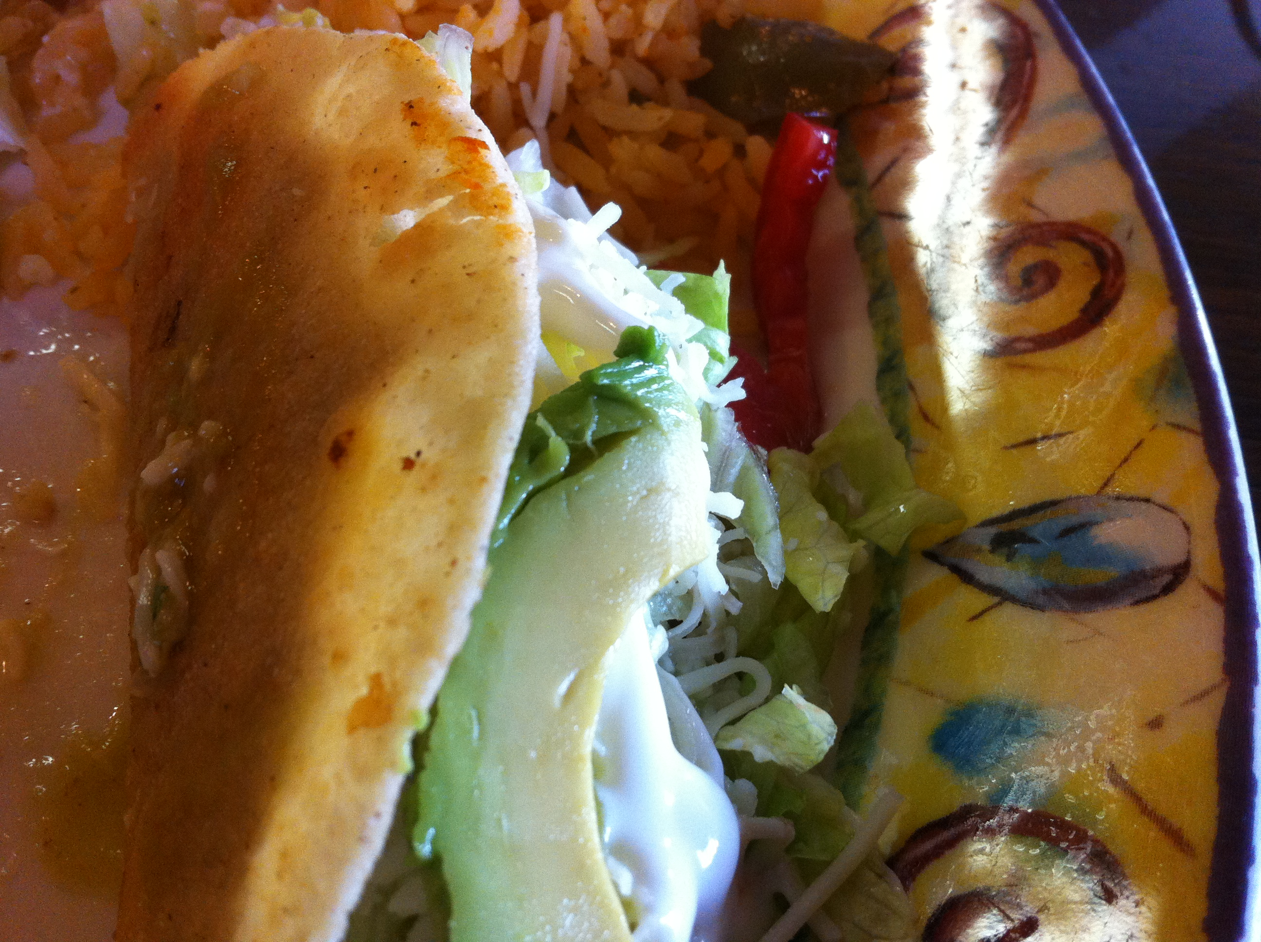 a picture of a crispy taco